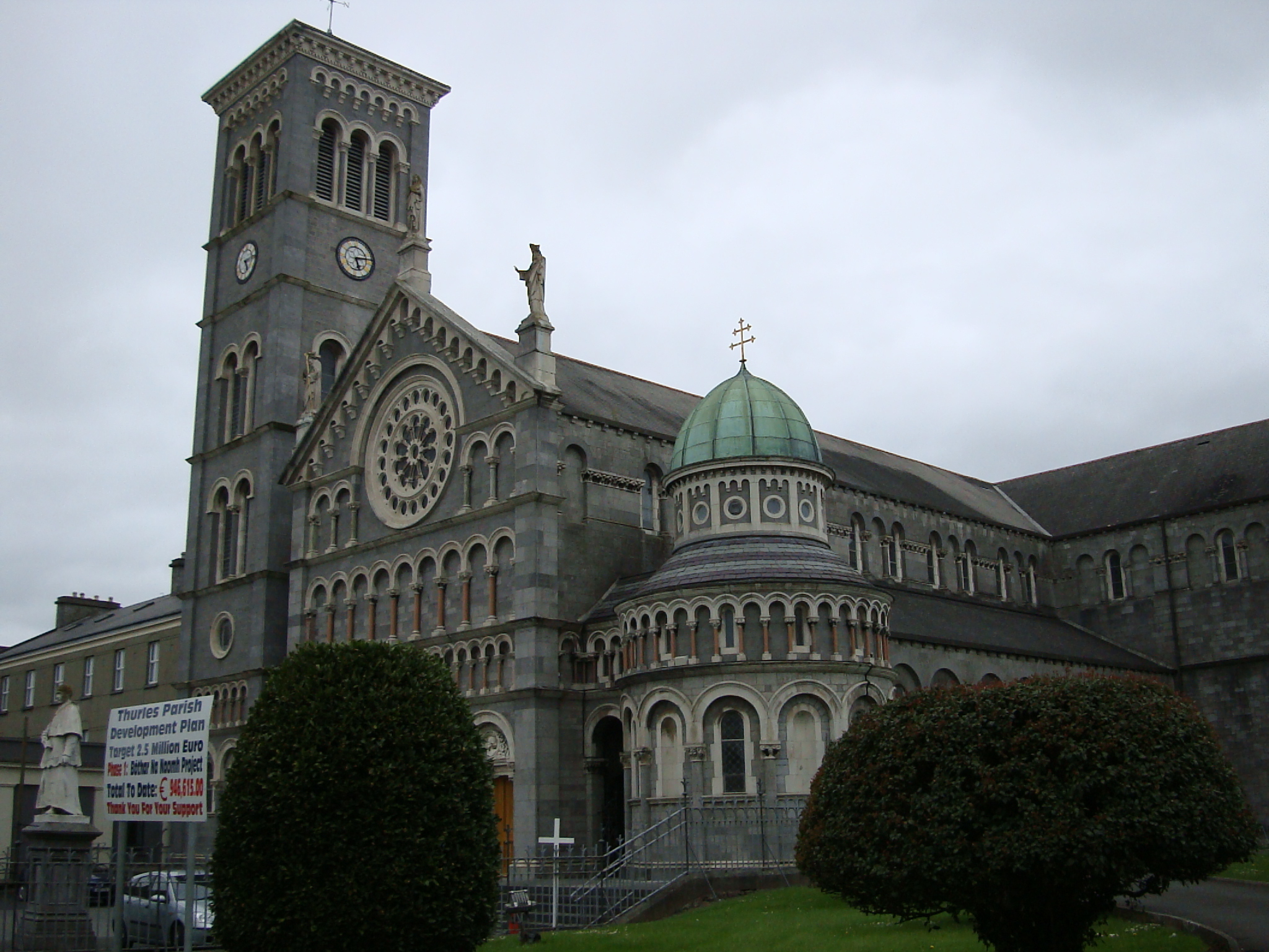 Photograph of Thurles Cathedral, Co. Tipperary, Republic of Ireland